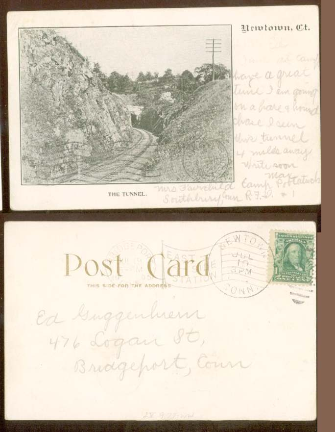 Postcard: The Tunnel in Newtown, Connecticut, 1905 postmark Description: "Postmarked1905. The old (as built) New York & New England Railroad tunnel at Newtown Ct. It still exists, but has no tracks [...] Became eventually New York, New Haven & Hartford NYNH&H RR"